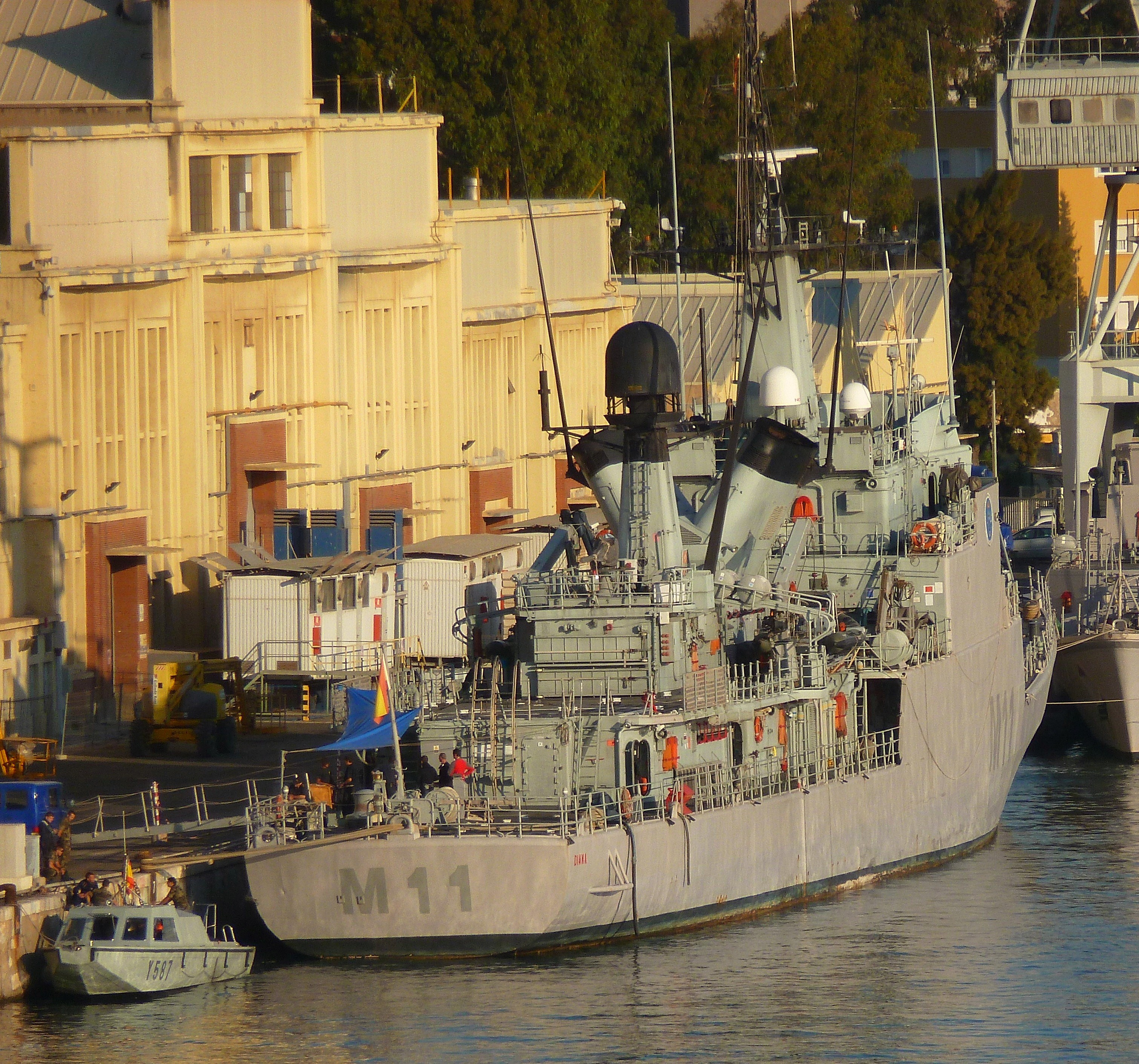 MCM command ship of the Spanish Navy "Diana", M-11.